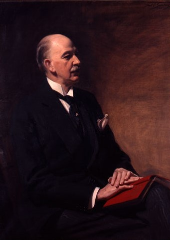 Clarence Winthrop Bowen (1852-1935), 1928 | Frank O. Salisbury (1874-1962) | oil on canvas | 44 1/8 x 34 (112.08 x 86.40) | signed, u.r.: ‘Frank O. Salisbury, 1928’ | Bequest of Clarence W. Bowen, 1935; received 1937 | Weis 12 Exhibitions: 1928, ‘Portraits and “The Kings Offering” by Frank O. Salisbury,’ Anderson Galleries, New York, no. 22. 1929, ‘Exhibition of Recent Work by Frank O. Salisbury,’ Grafton Galleries, London, no. 32.